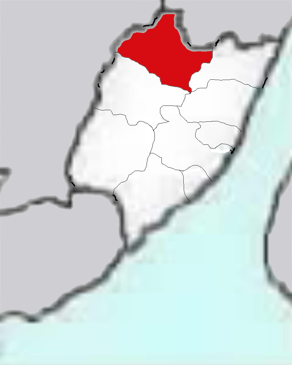 Maps of Fujian Province, China